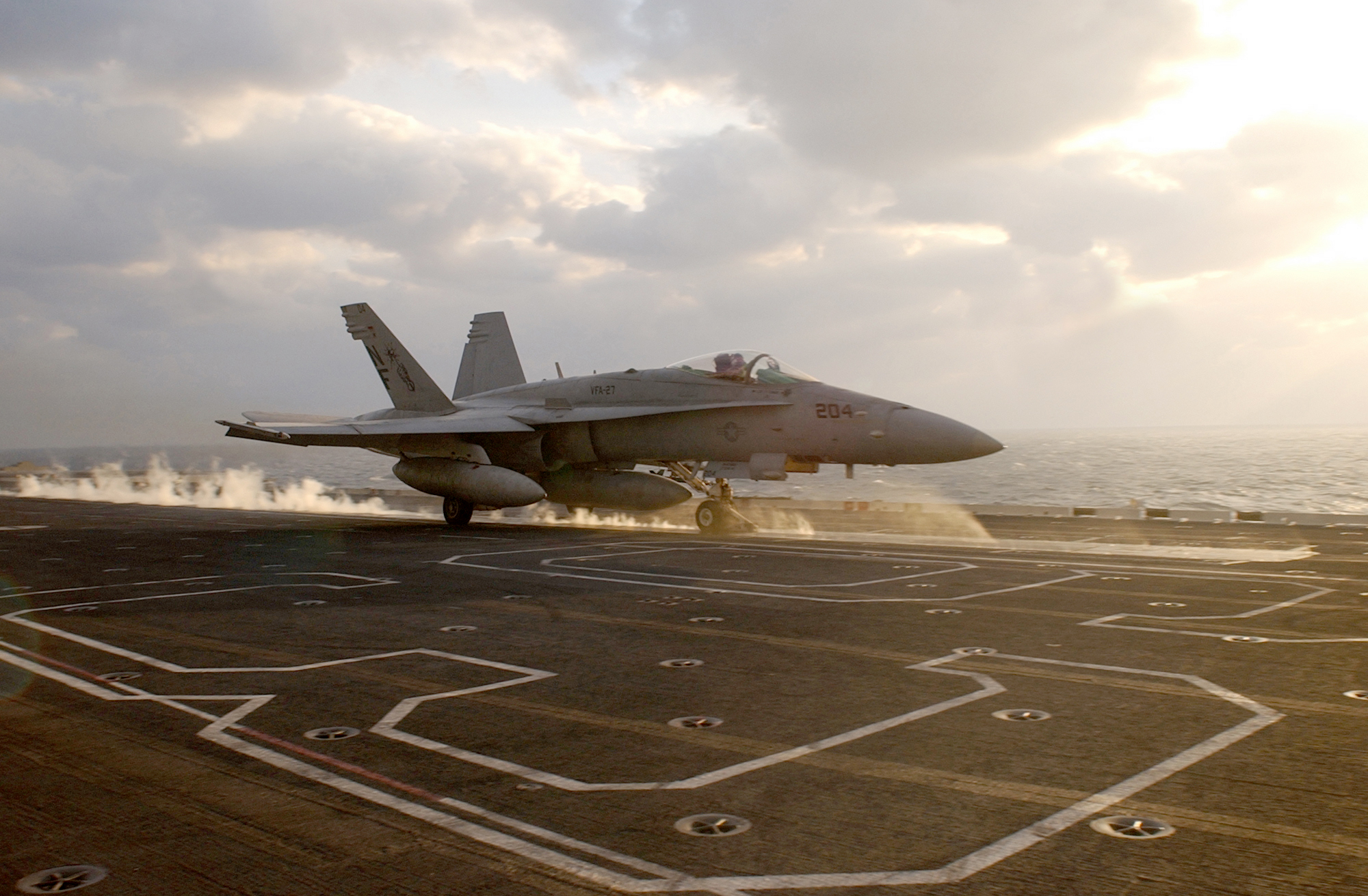 At sea aboard USS Kitty Hawk (CV 63) Jan. 28, 2003 -- An F/A-18C “Hornet” launches from one of the aircraft carrier’s four steam-driven catapults. Before jet aircraft came into service in the 1950’s, catapults were hydraulically powered. The steam catapult was invented in 1952 by Britain's Royal Navy to improve the launch of the era's new jet airplanes from carriers. Steam catapults draw their power directly from the heat of the ship's engines. Since aircraft carrier engines are large, they have an enormous amount of power. The steam catapult uses this power to fling airplanes weighing as much as 71,000 lbs. into the air using only 300 ft. of flight deck space. Kitty Hawk is the Navy’s only permanently forward-deployed aircraft carrier and operates out of Yokosuka, Japan. U.S. Navy photo by Photographer’s Mate 3rd Class Todd Frantom. (RELEASED)